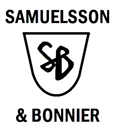 Replica of a logotyp of a Swedish construction-company